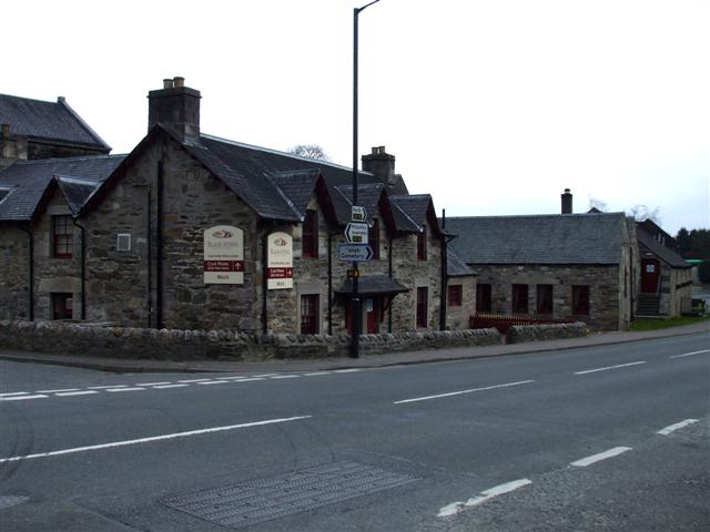 Blair Athol Distillery It is located to the east of Pitlochry.